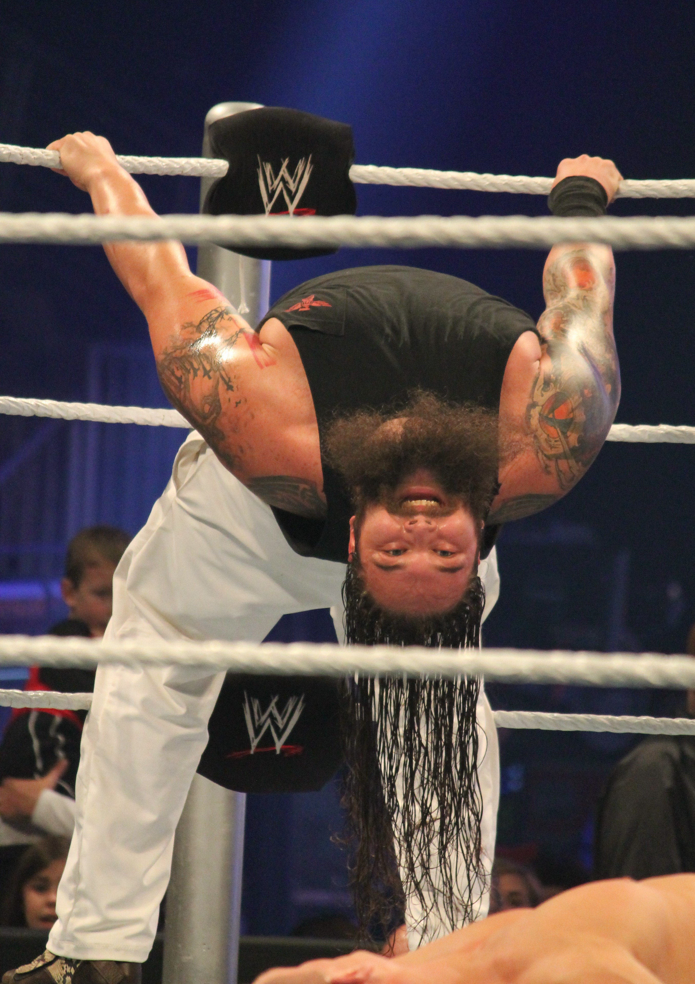 Bray Wyatt at the post-WrestleMania SmackDown tapings on 8 April 2014 in Lafayette.